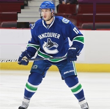 Photo was taken of Steve Pinizzotto, a hockey player with the Vancouver Canucks during warm up skate and when the shots on the net were being taken